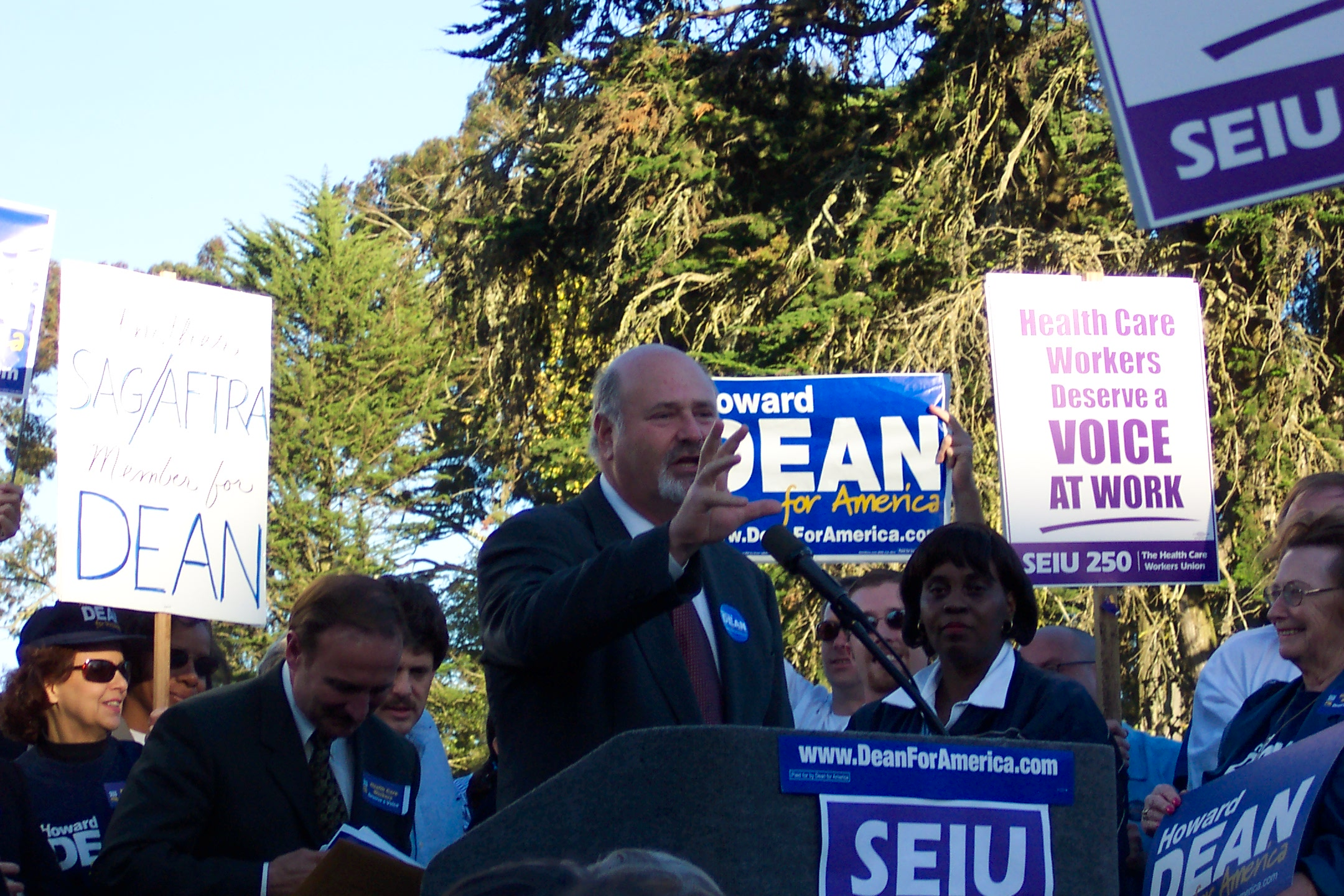 Rob Reiner speaking at a rally for presidential candidate Howard Dean in San Francisco, Oct. 29, 2003.